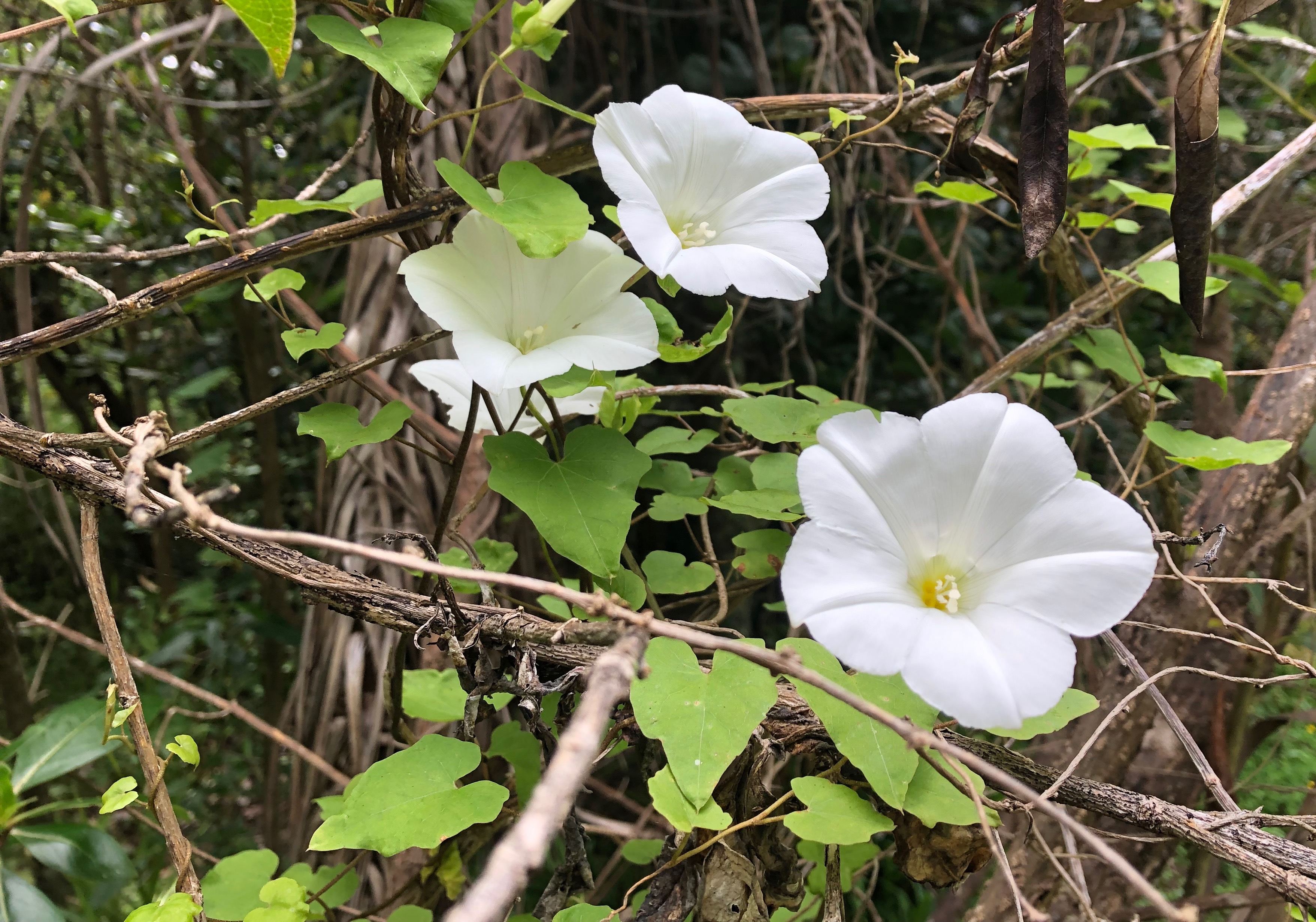 NZ bindweed